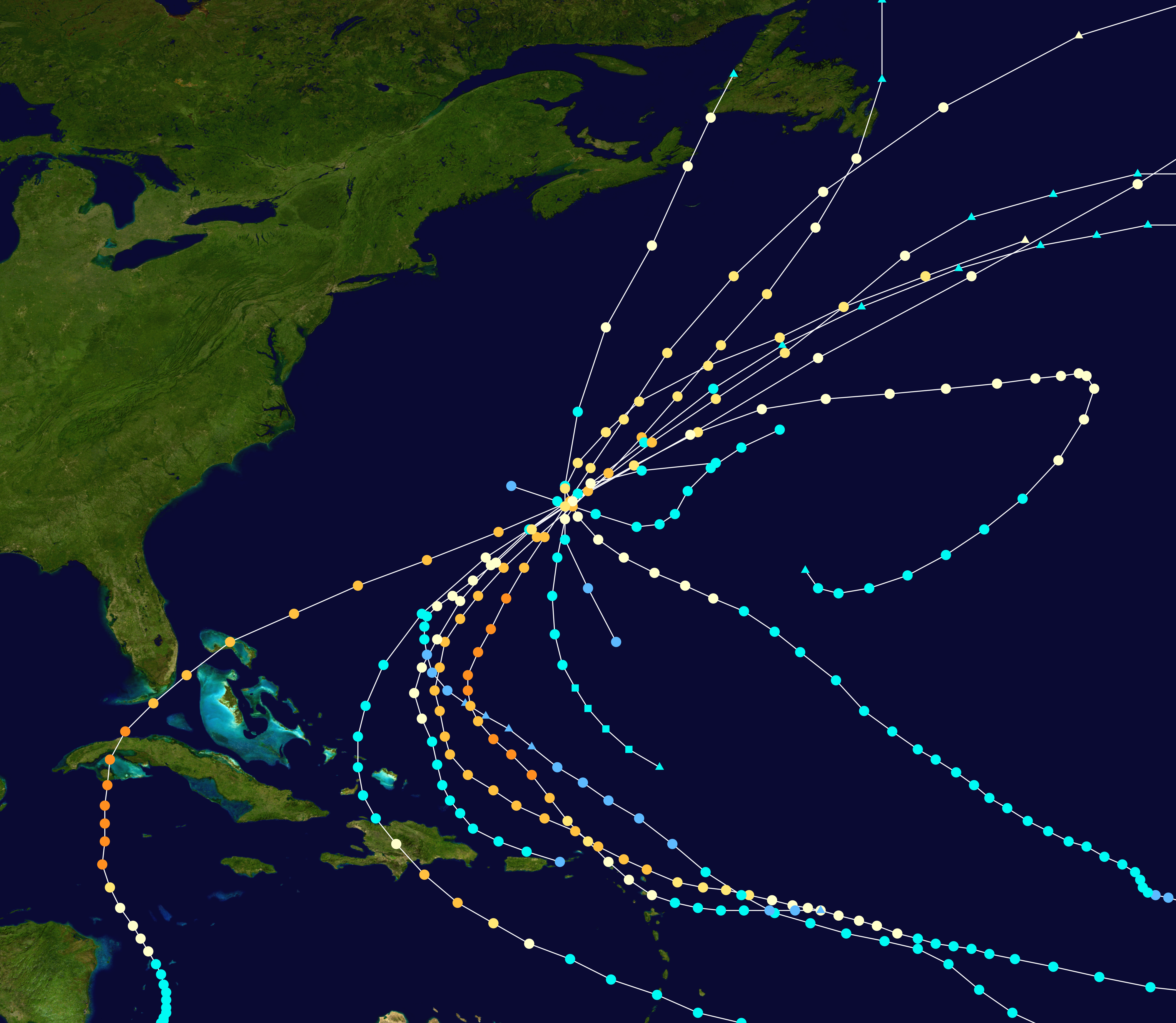 Track map of all landfalling tropical cyclones in Bermuda since 1851. The points show the location of the storm at 6-hour intervals. The colour represents the storm's maximum sustained wind speeds as classified in the Saffir-Simpson Hurricane Scale (see below), and the shape of the data points represent the nature of the storm, according to the legend below. Saffir–Simpson scale Tropical depression≤38 mph≤62 km/h Category 3111–129 mph178–208 km/h Tropical storm39–73 mph63–118 km/h Category 4130–156 mph209–251 km/h Category 174–95 mph119–153 km/h Category 5≥157 mph≥252 km/h Category 296–110 mph154–177 km/h Unknown Storm type Tropical cyclone Subtropical cyclone Extratropical cyclone / Remnant low / Tropical disturbance / Monsoon depression